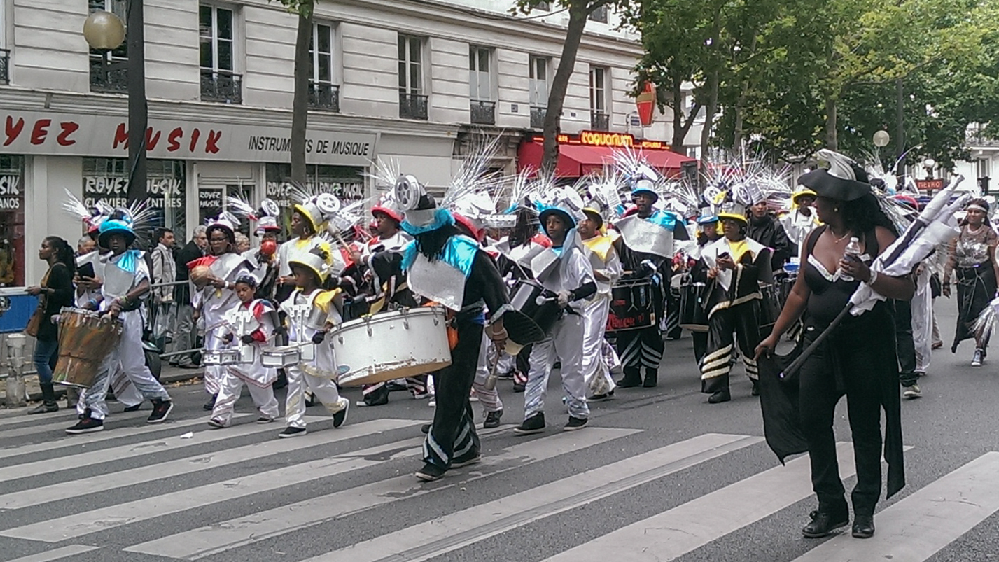 Tropical Carnival of Paris 2014 - Some members of Ethnick'97 band